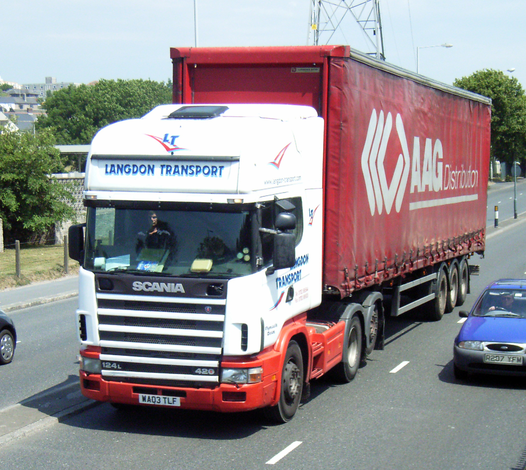 Embankment Plymouth 25 june 2009